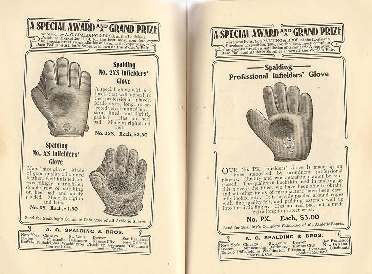 A. C. Spalding & Bros. advertisements for baseball infielders' gloves, from a booklet published in 1905 titled "How to Play Second Base", part of "Spalding's Athletic Library" series.